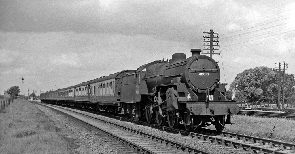 Midland holiday express to Great Yarmouth at Walton, near Peterborough. View NW, towards Manton; ex-Midland Nottingham/Derby - Leicester - Melton Mowbray - Manton - Peterborough East line. The train is the Summer Saturday 09.55 Derby to Yarmouth (Vauxhall) express, with Hughes/Fowler 5P4F 2-6-0 (fitted with Reidinger poppet valve-gear), No. 42818. Walton Station (closed 7/12/53) is just visible in the distance. On the right is the East Coast Main Line, which runs parallel Peterborough North - Helpston but had no stations on this stretch.